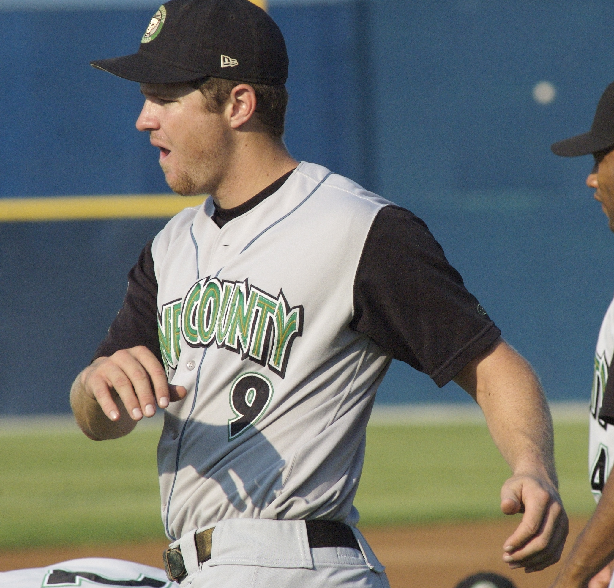 Cougars @ Devil Rays 080106